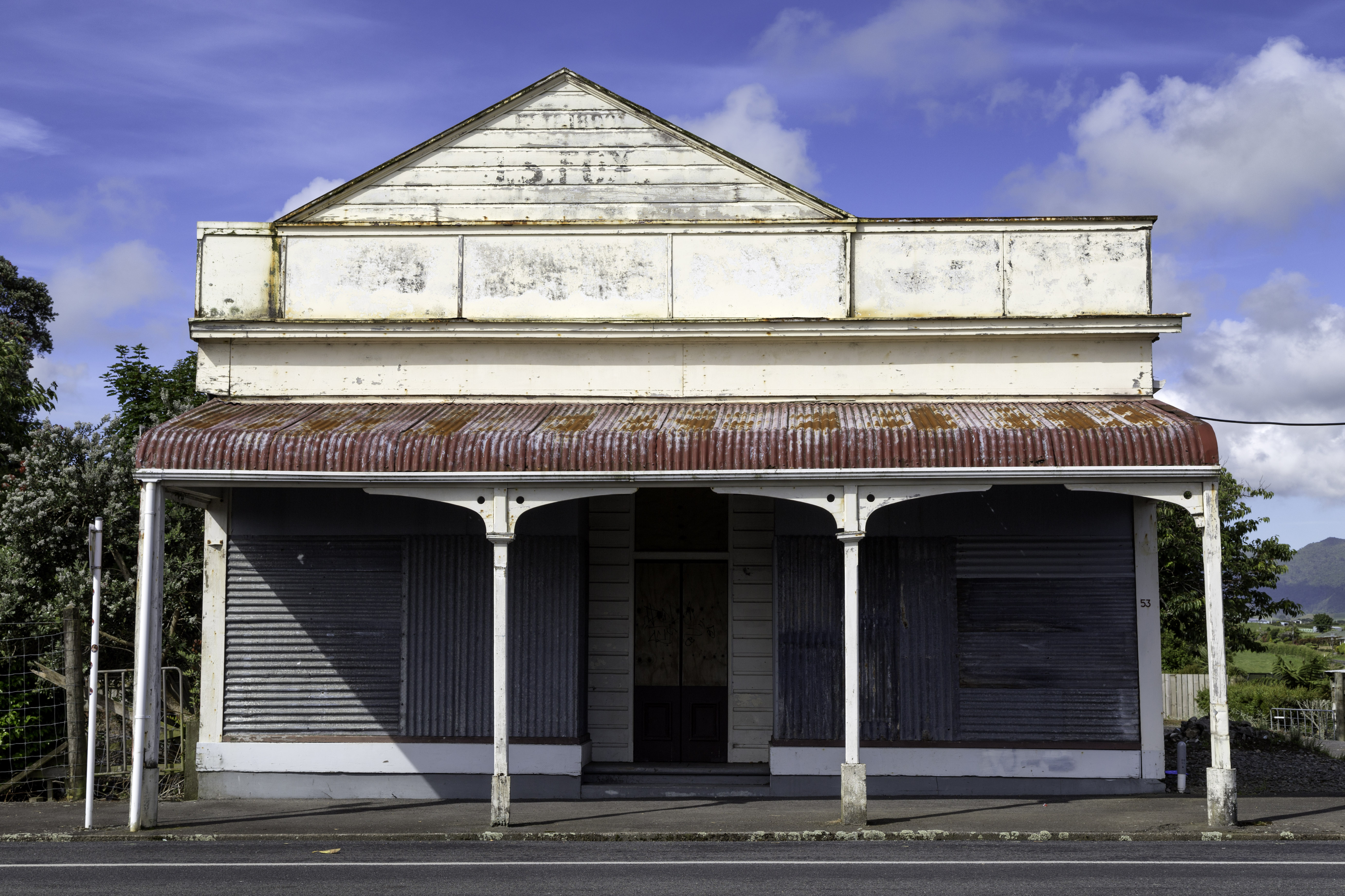 A once proud building, this colonial style store sits on the main street of Okato, Taranaki, NZ. The veranda serves as a shelter for people waiting at the bus stop. The faded livery on the top of the building says - ESTB. 1899 J. S. FOX According to The Cyclopedia of New Zealand [Taranaki, Hawke's Bay & Wellington Provincial Districts] (published in 1908), this business was once known as "The Okato Post Office, Telegraph Office and Telephone Bureau", and was operated by James Smith Fox as the district Post Office. They sold groceries, ironmongery, boots and shoes, grain, manures, etc.